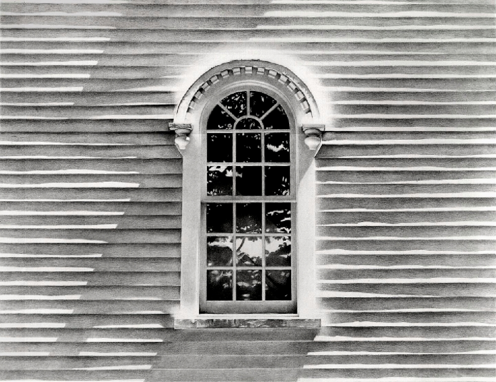 "I came across this stunning play of sunlight streaming down an old church in Peapack/Gladstone New Jersey. At early 30 something, I changed my life! For nearly 2 years I worked toward a one man exhibition of major drawings of sunlit architecture. Not only would I realize my earliest creative goal but be rewarded critically with a near sell out. I so loved the image of 'Church Window' as a successful personal accomplishment that that I decided to make it my first limited edition printing and consequently began Nathaniel Graphics." Carroll Jones III, JONES III, Nathaniel Graphics 2013...Work also part of Newark Museum Collection.